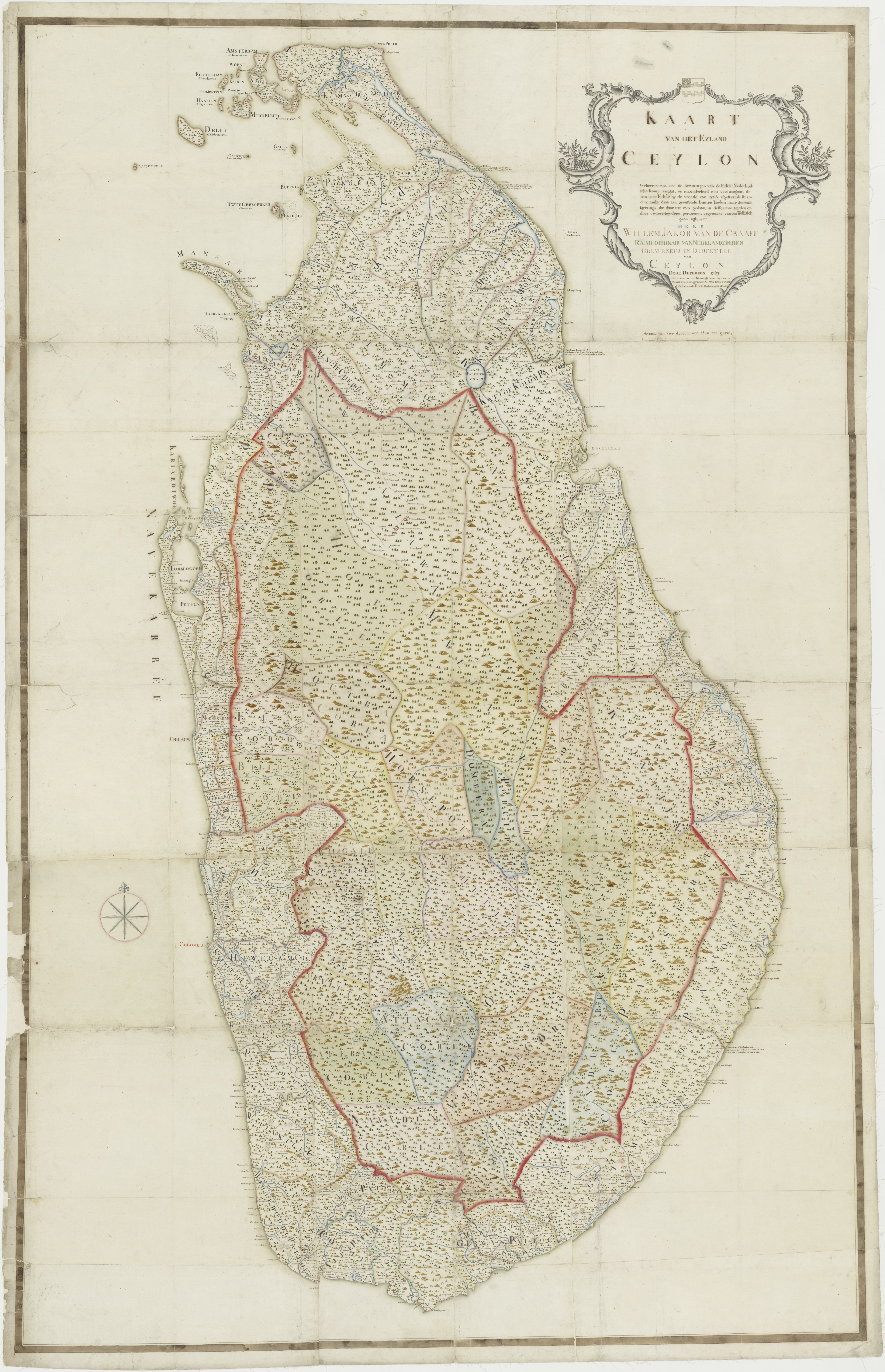 According to the Leupe catalogue (NA), the original title reads: Kaart van het Eyland Ceylon, verbeetert zoo veel de bezittingen van de Edele Nederlandsche Komp. aangaat, en inzonderheid zoo veel aangaat, de aan de Edele by de vreede van 1766 afgestaande stranden enz.. The border of the coastline relinquished by the Kingdom Kandy to the VOC is marked with a red line. Topographical names of the islands: Amsterdam of Kaaretiwoe, Woest Rotterdam of Anneleitiwoe, Katoen, Poelientiwoe, Haarlem of Nuynatiwoe, Middelburg of Manditiwoe, Delft of Nedoentiwoe, Caits Welene, Perie Kanatoe, Galienje of Kakerestwoe, Galue of Palletiwoe, Buffels, Twee Gebroeders of Irenetiwoe, Enkuisen, Manaar, Kariardiwoe.